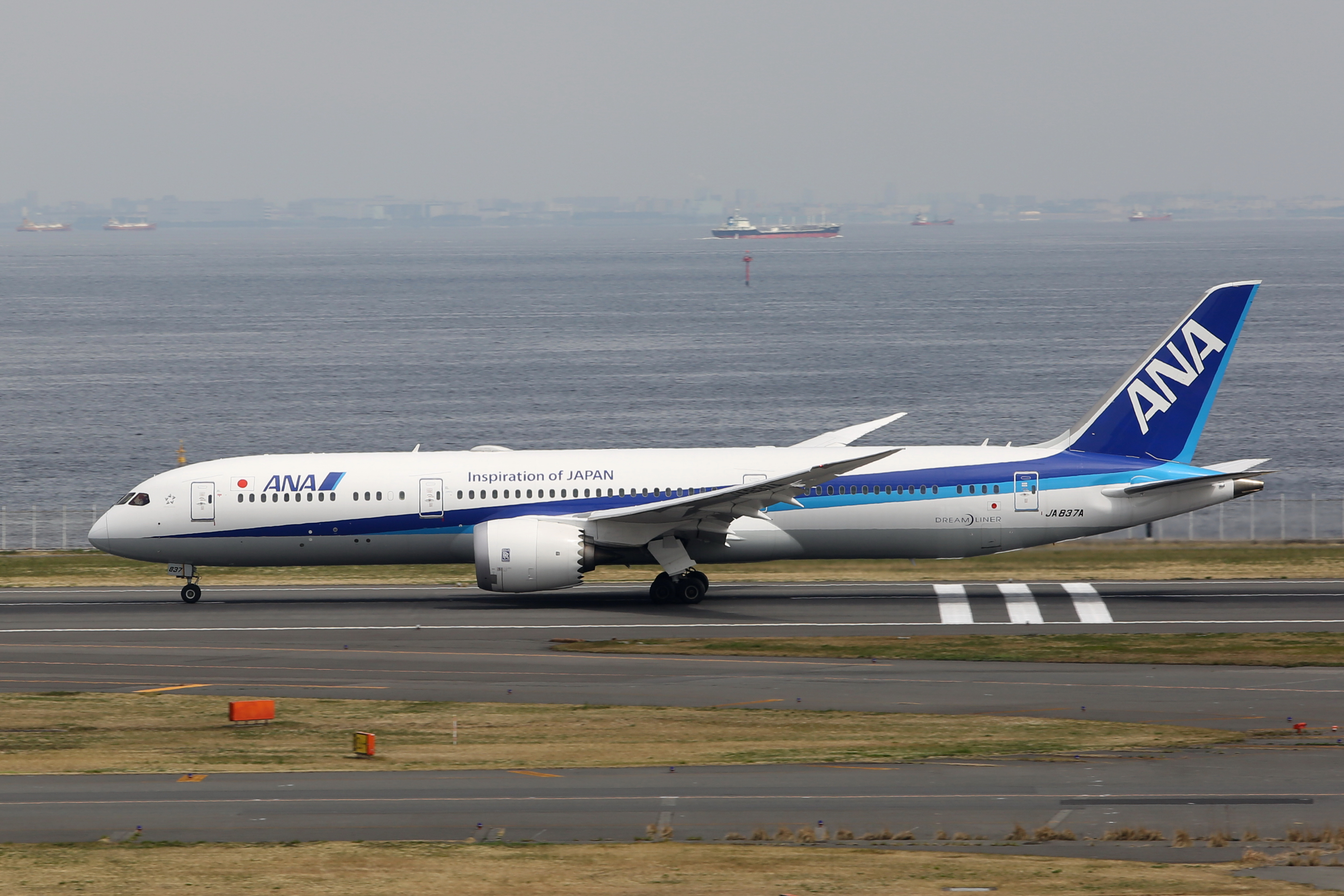 Tokyo International Airport, Boeing 787-9, c/n:34526, All Nippon Airways